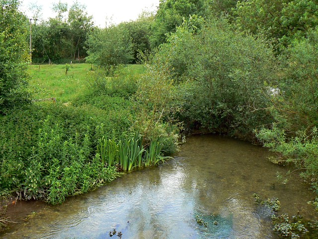 River Kennet, near Clatford. This is a view of the small and shallow river as it makes its way towards Marlborough. It gets considerably larger within a distance of about 16 kilometres as can be seen here 294412